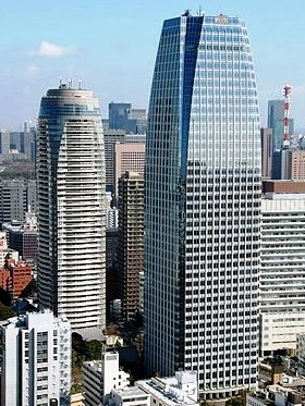 Atago Green Hills, viewed from Tokyo tower. Tokyo, Japan.